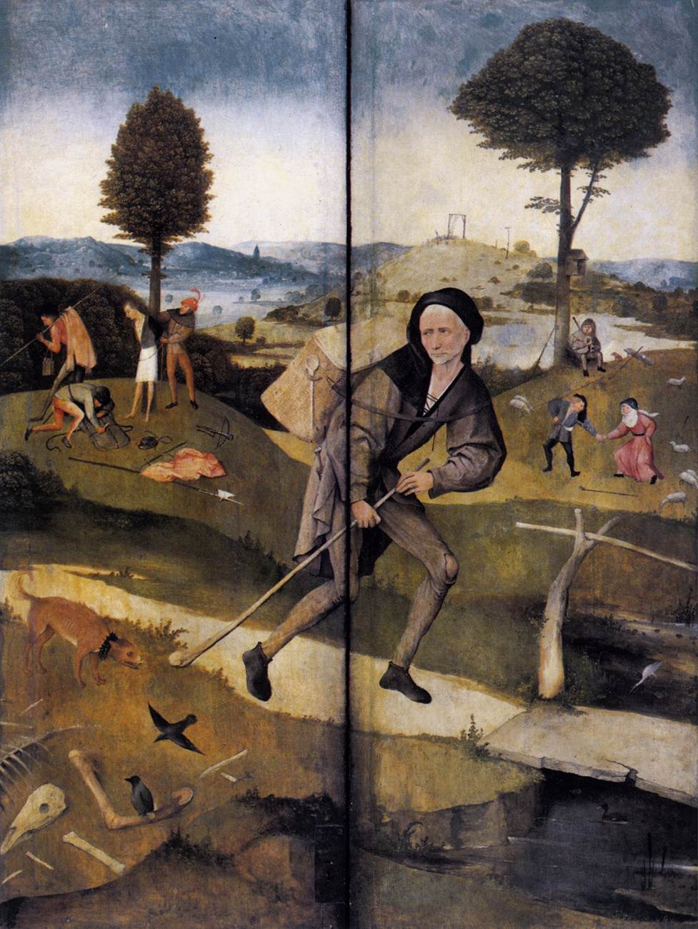 Outside of the Hay Wagon Triptych.